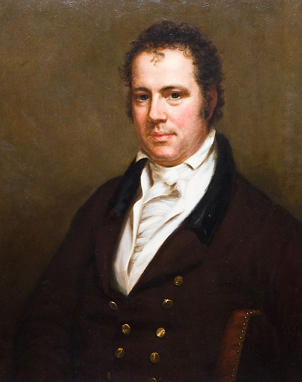 portrait of Senator William Hunter, oil on panel , dated 1824